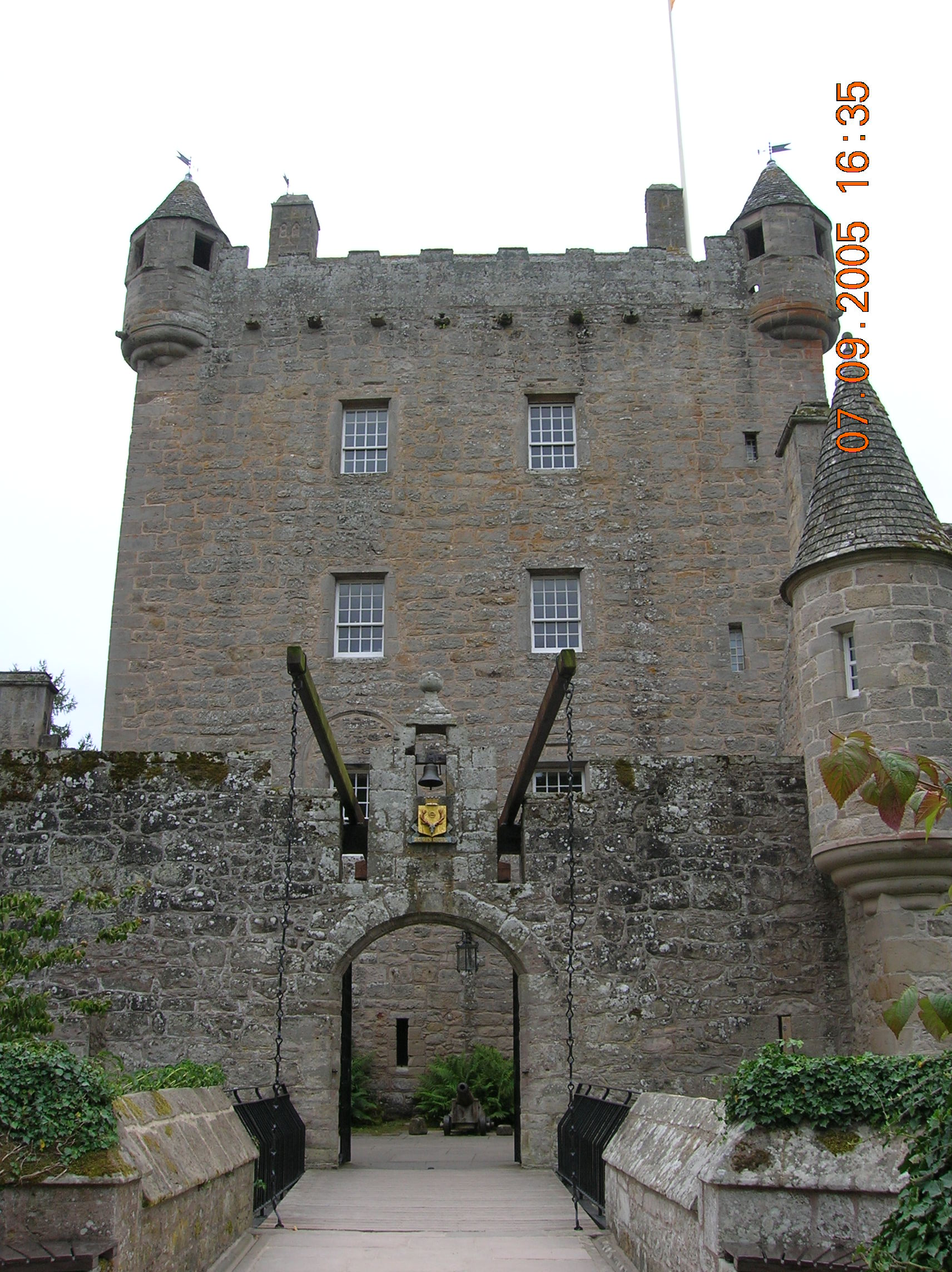 Cawdor Castle, Scotland